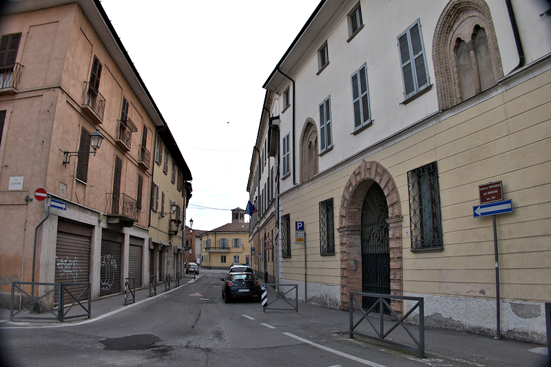 Via Borgo San Pietro, a street in Crema (Italy)